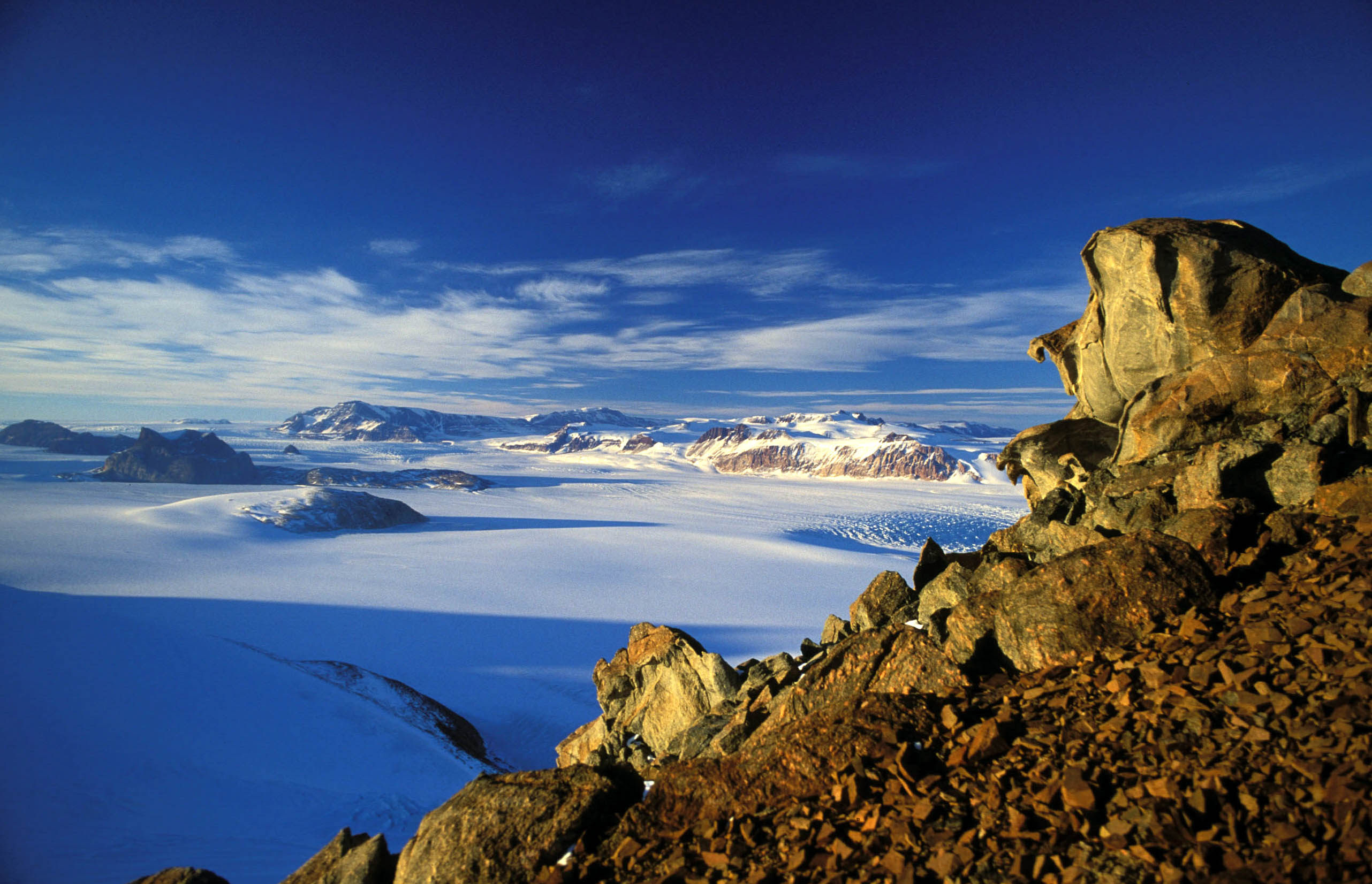 Transantarctic Mountains, Northern Victoria Land, view from close to Cape Roberts